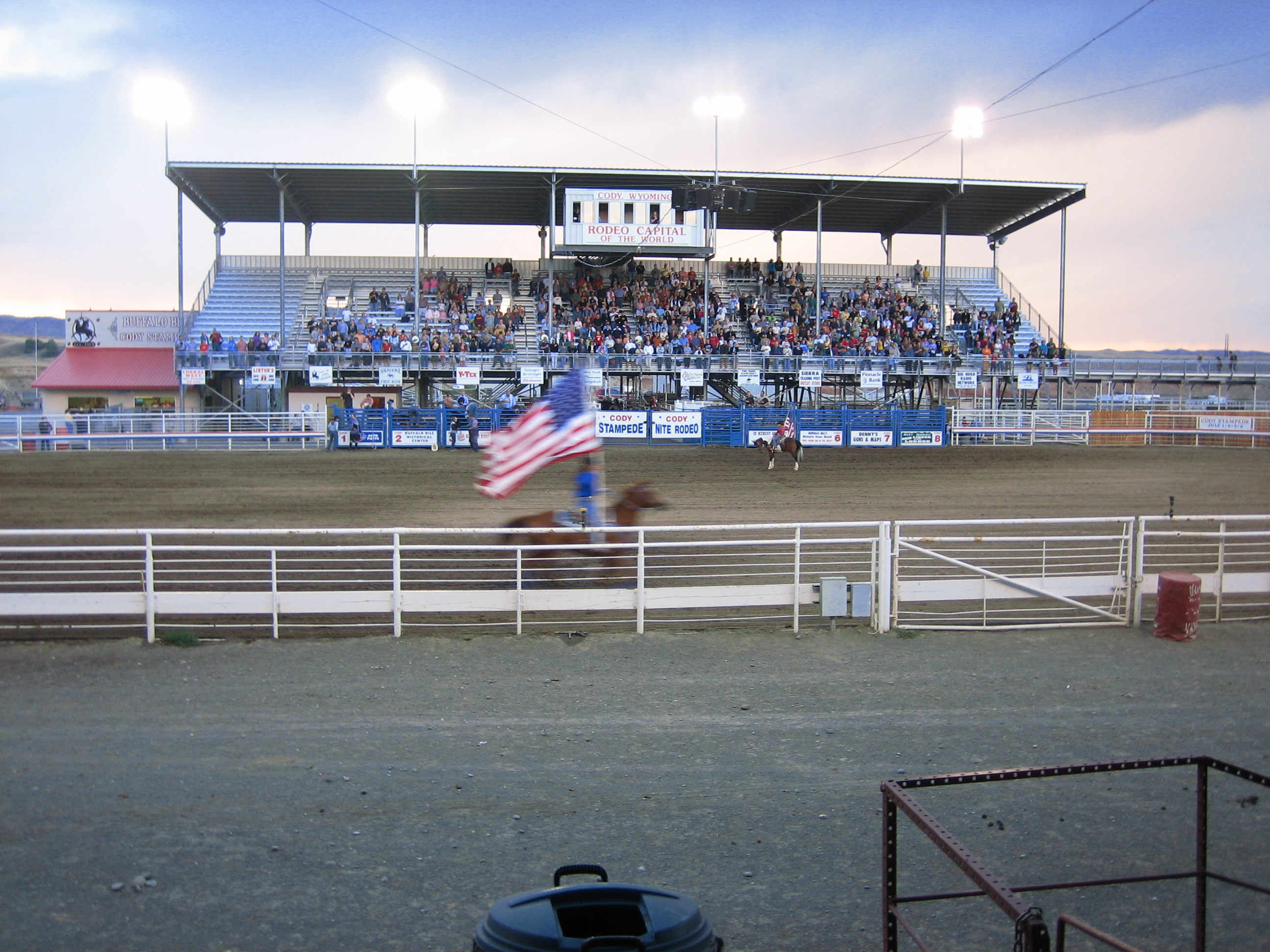 The flag waves at the start of the Cody Nite Rodeo, August 6, 2006. Own work by Billy Hathorn (talk).